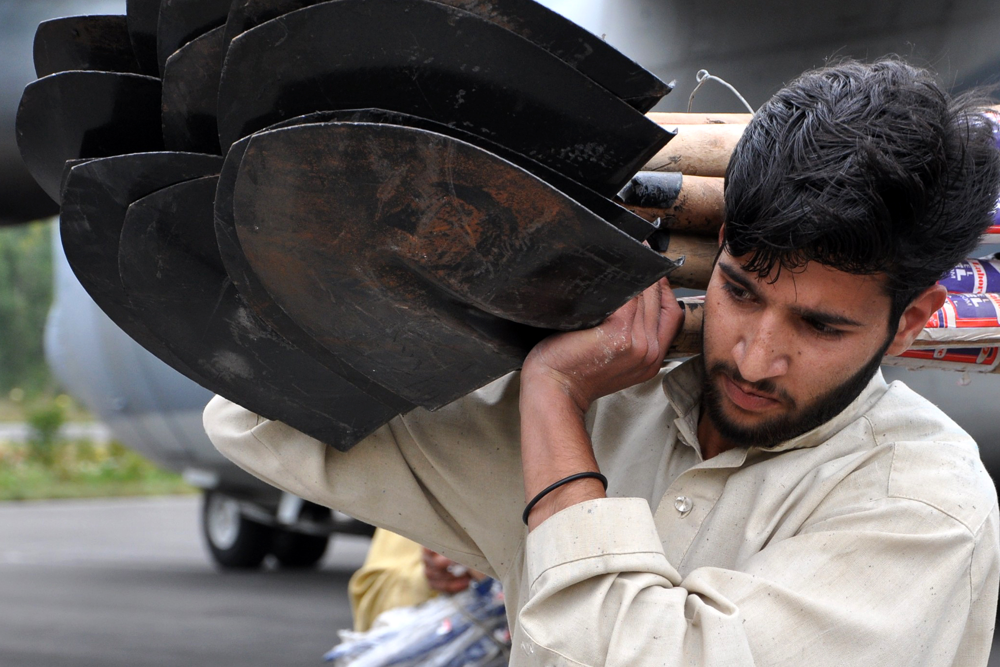 A Pakistani man carries shovels as he helps the crew in offloading flood relief supplies from a U.S. Marine Corps KC-130J Super Hercules on Gilgit Air Base, Pakistan.